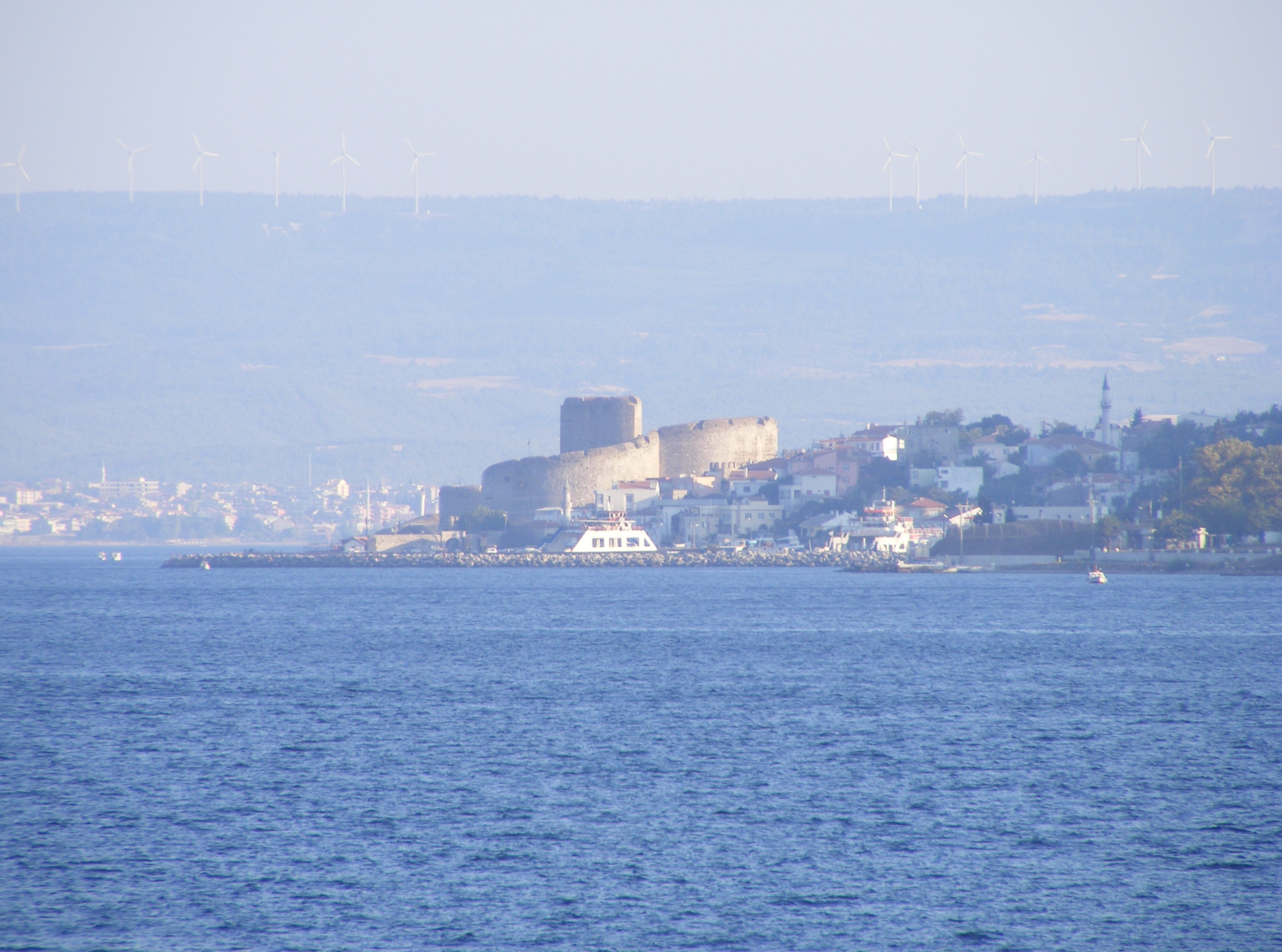 Kilitbahir Castle in Eceabat, Canakkale province of Turkey